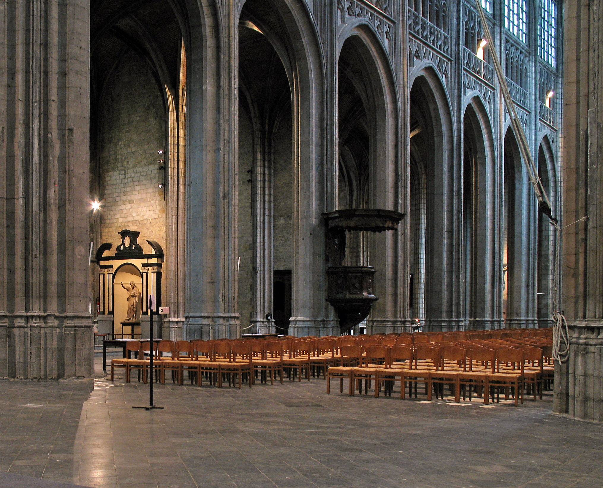 Mons (Belgium): interior of S. Waudru church